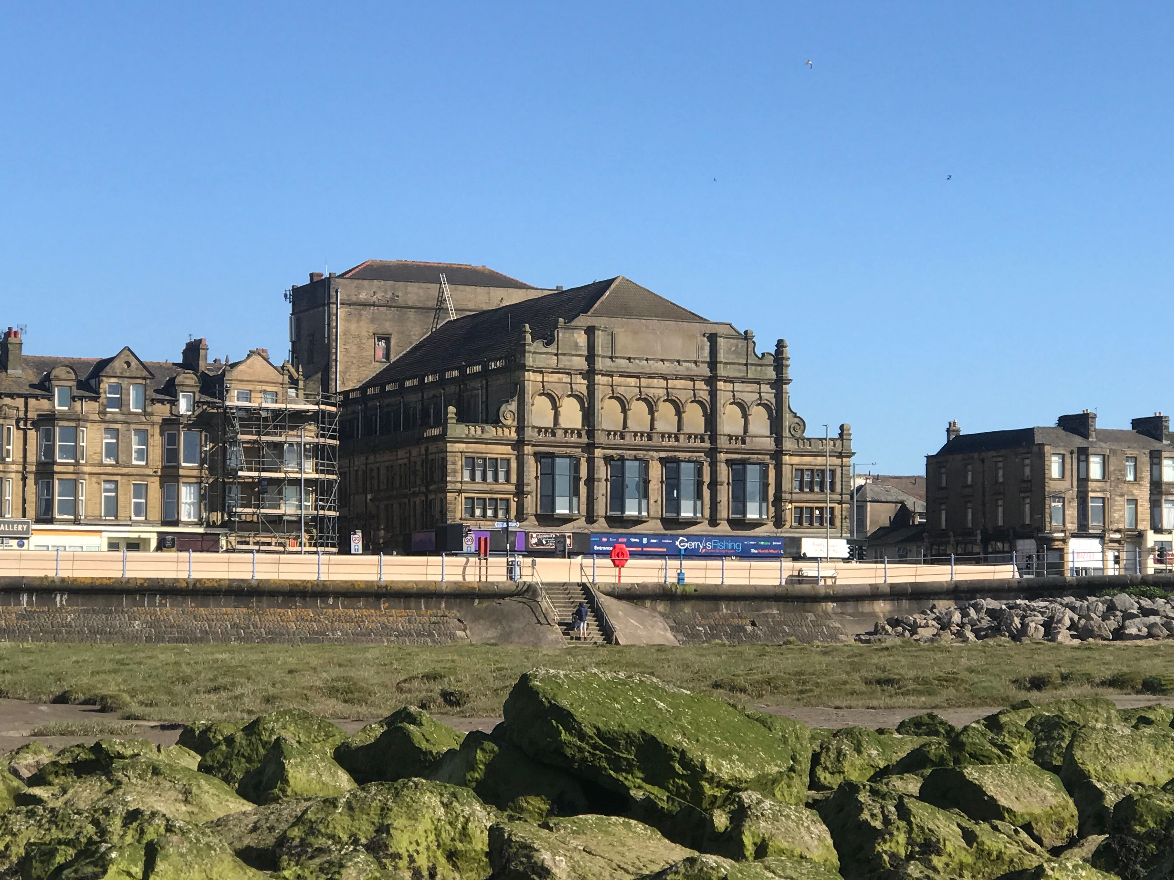 Alhambra Theatre, West End of Morecambe, view from Morecambe Bay